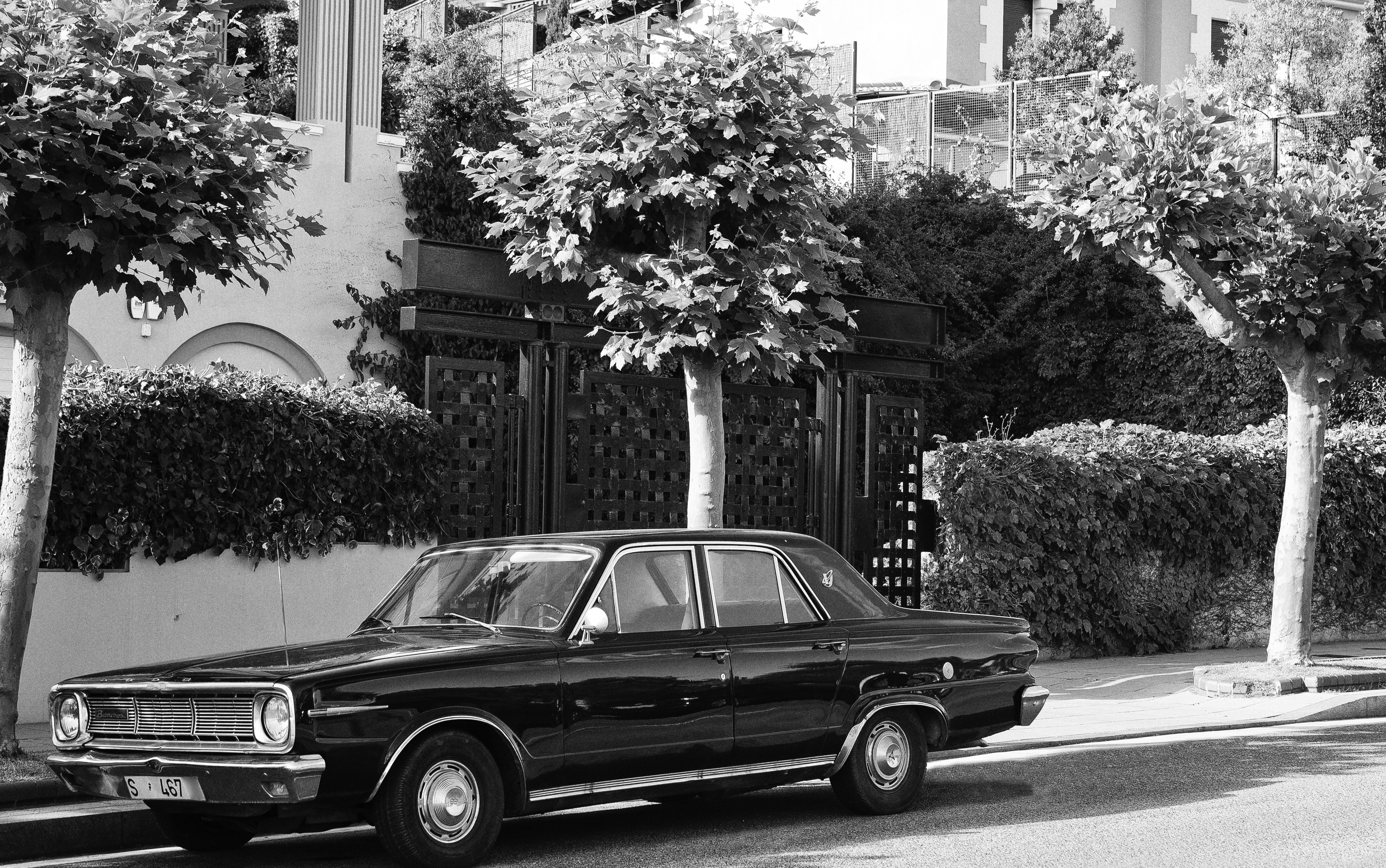 While in other parts of the world, specially the US this was just your average automobile it was the wealthier people in the Spain of the sixties that could afford this barge. Owning a little Seat 600 was a big achivement already for a family so only the richer ones could afford a Dart. They were also used as official cars for many politics. 65' was the first model year for the Dart in Spain that kept its production through 1970, with various trim levels and design changes. Eventhough this is actually a 66' it was registered in December 1965, probably a very early 66' model year. It's not that easy to stumble upon one in the flesh, I saw this one the day before I took this picture but had no chance of snapping it so since I was around the day after I checked if it was still there, and indeed it was. Looked pretty good overall although it was missing its right side hubcaps.